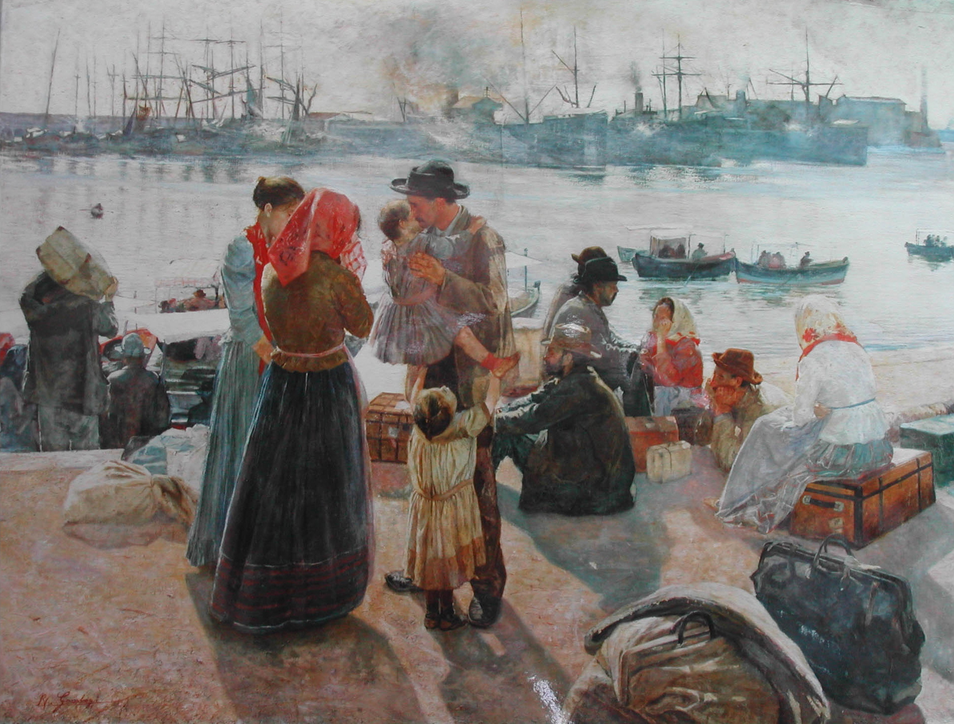 Raffaello Gambogi - The Immigrants (1894), 146 x 196 cm, oil on canvas. Museo Civico Giovanni Fattori, Livorno, Italy.